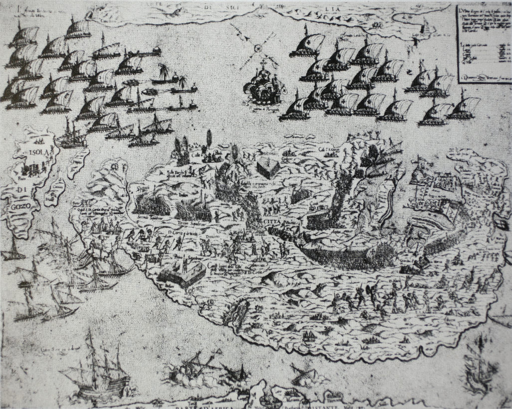 Attack of the Ottoman fleet against Malta in 1565